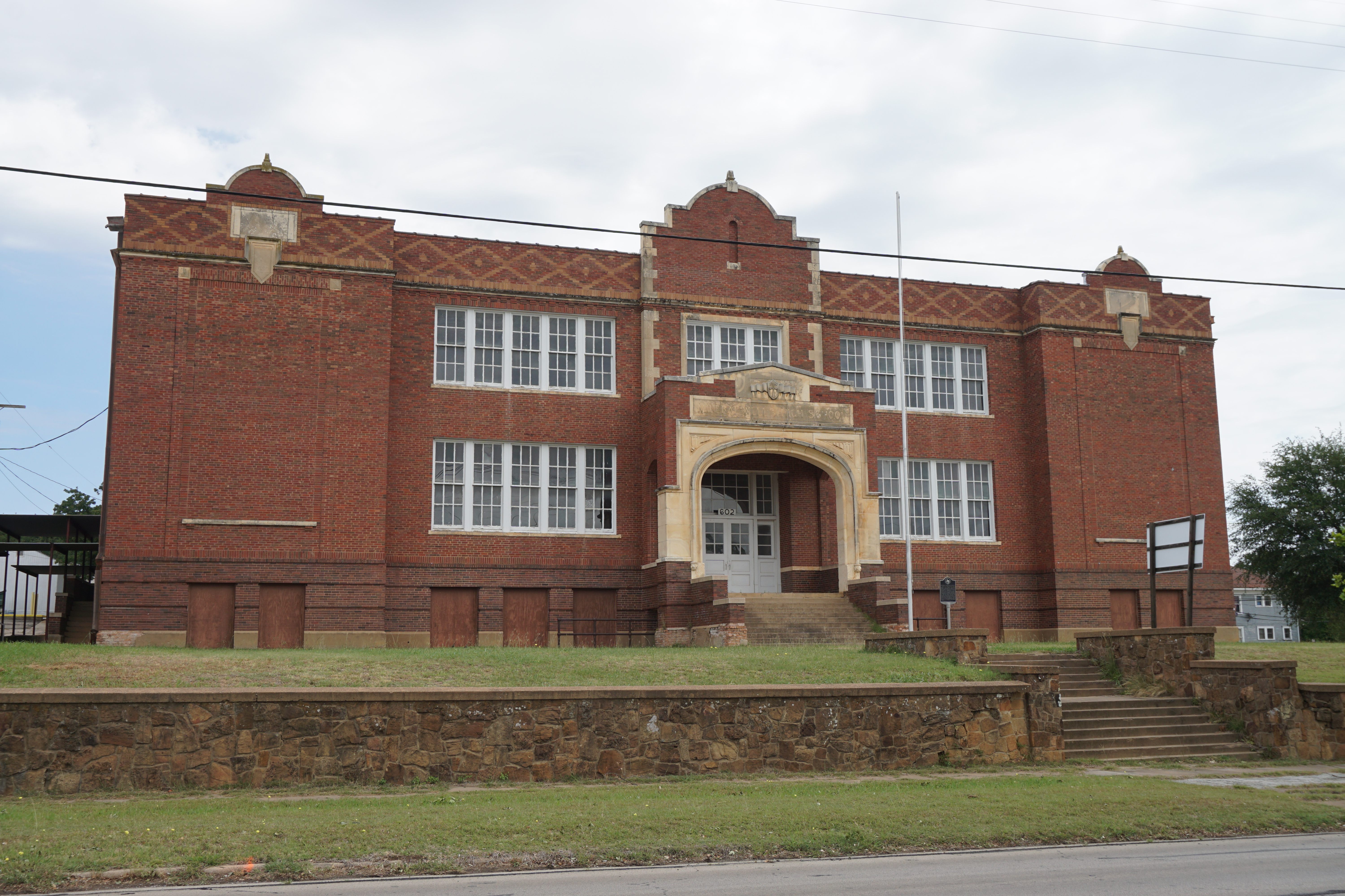 Old Mineral Wells High School in Mineral Wells, Texas (United States).